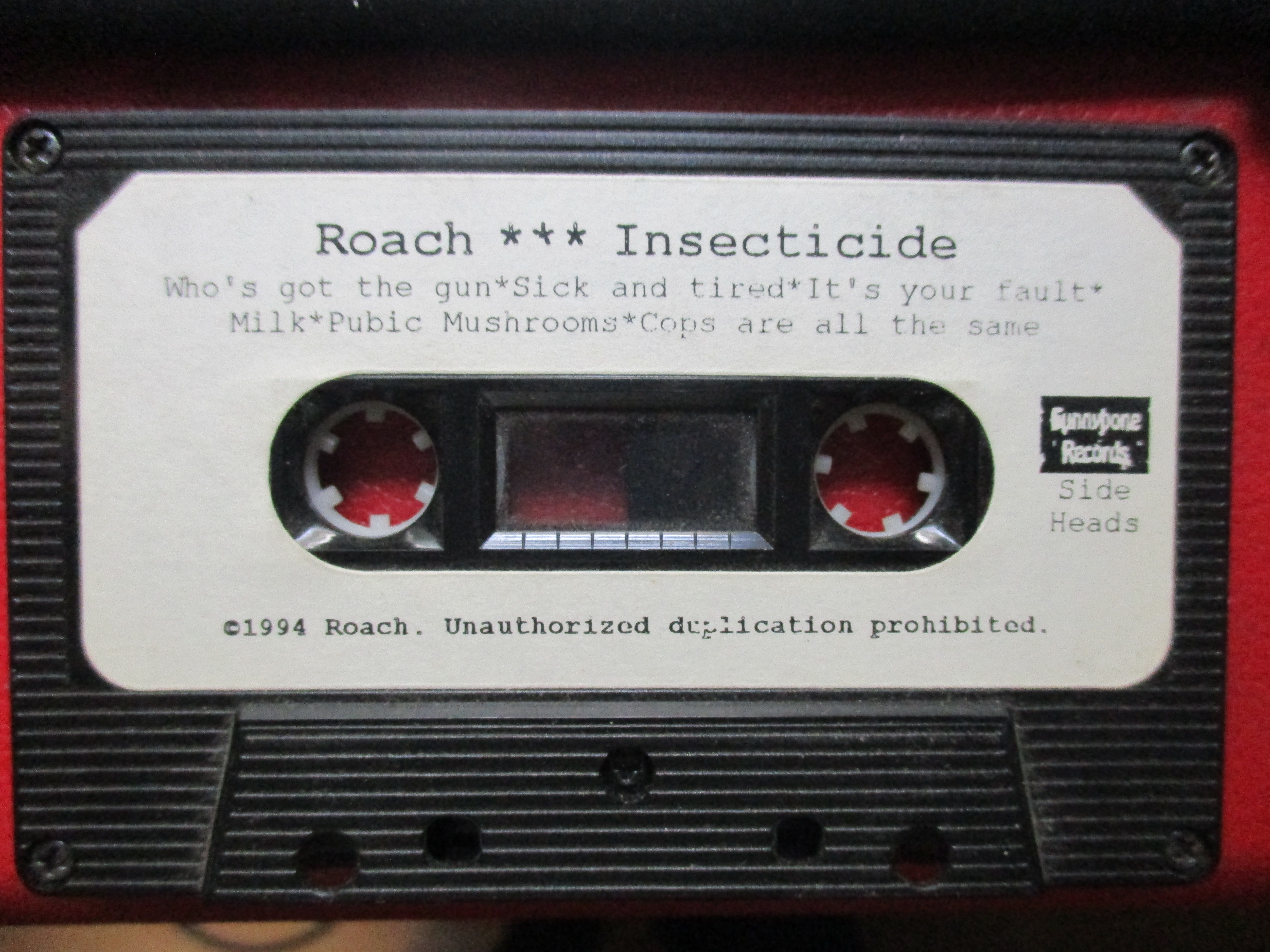 Roach - Insecticide Cassette from 1994